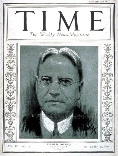 TIME Magazine Cover Featuring Hiram Johnson (29 Sep 1924)